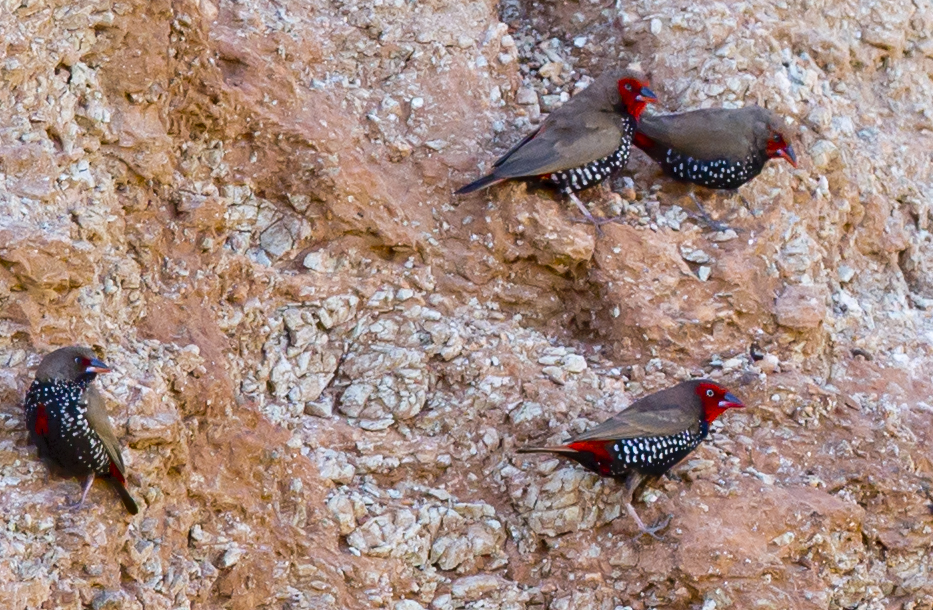 Four Painted Finches in Karratha, Pilbara, Western Australia, Australia. They are perching on a quarry wall where there is water nearby.